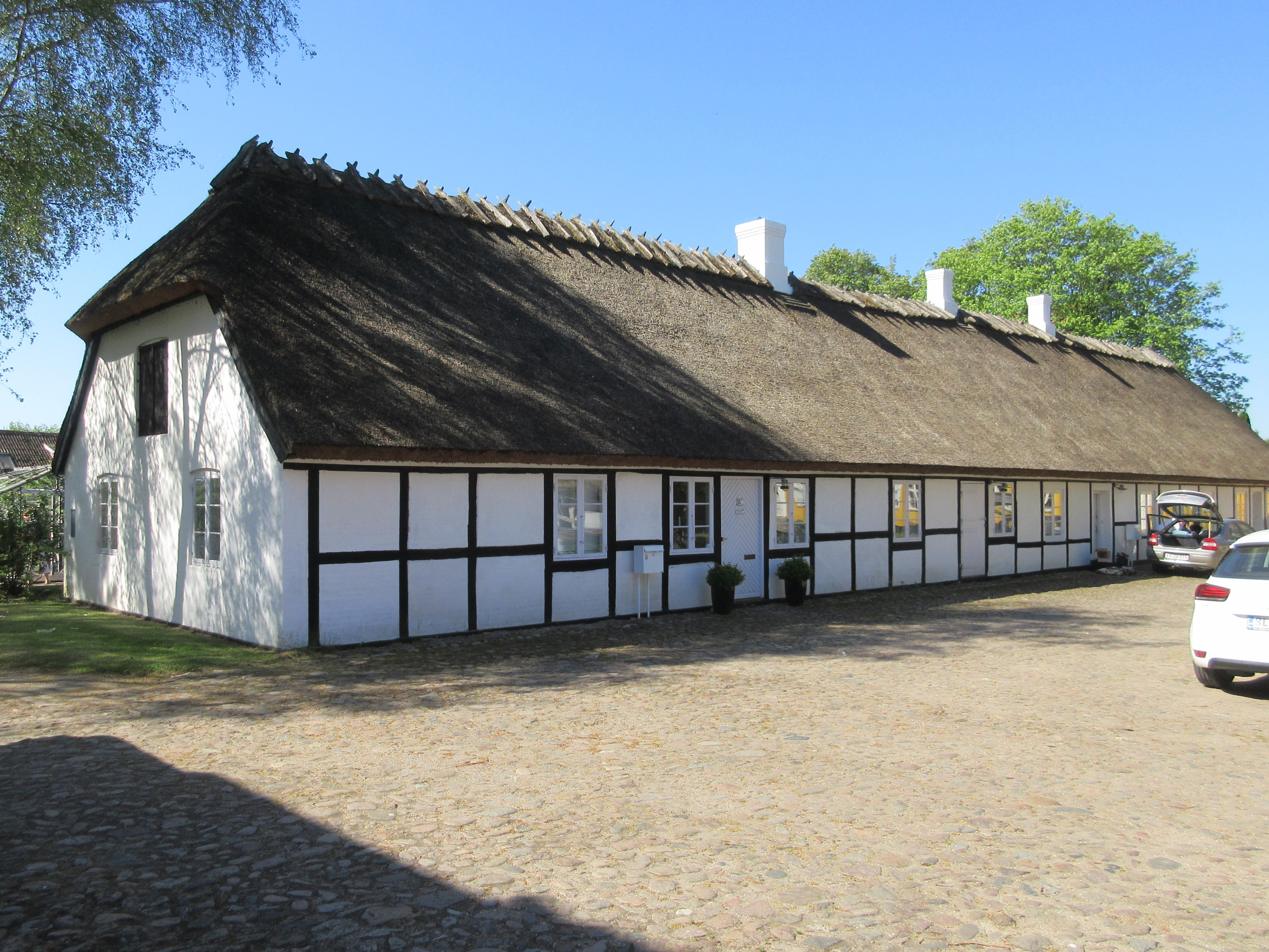 Skævinge Præstegå